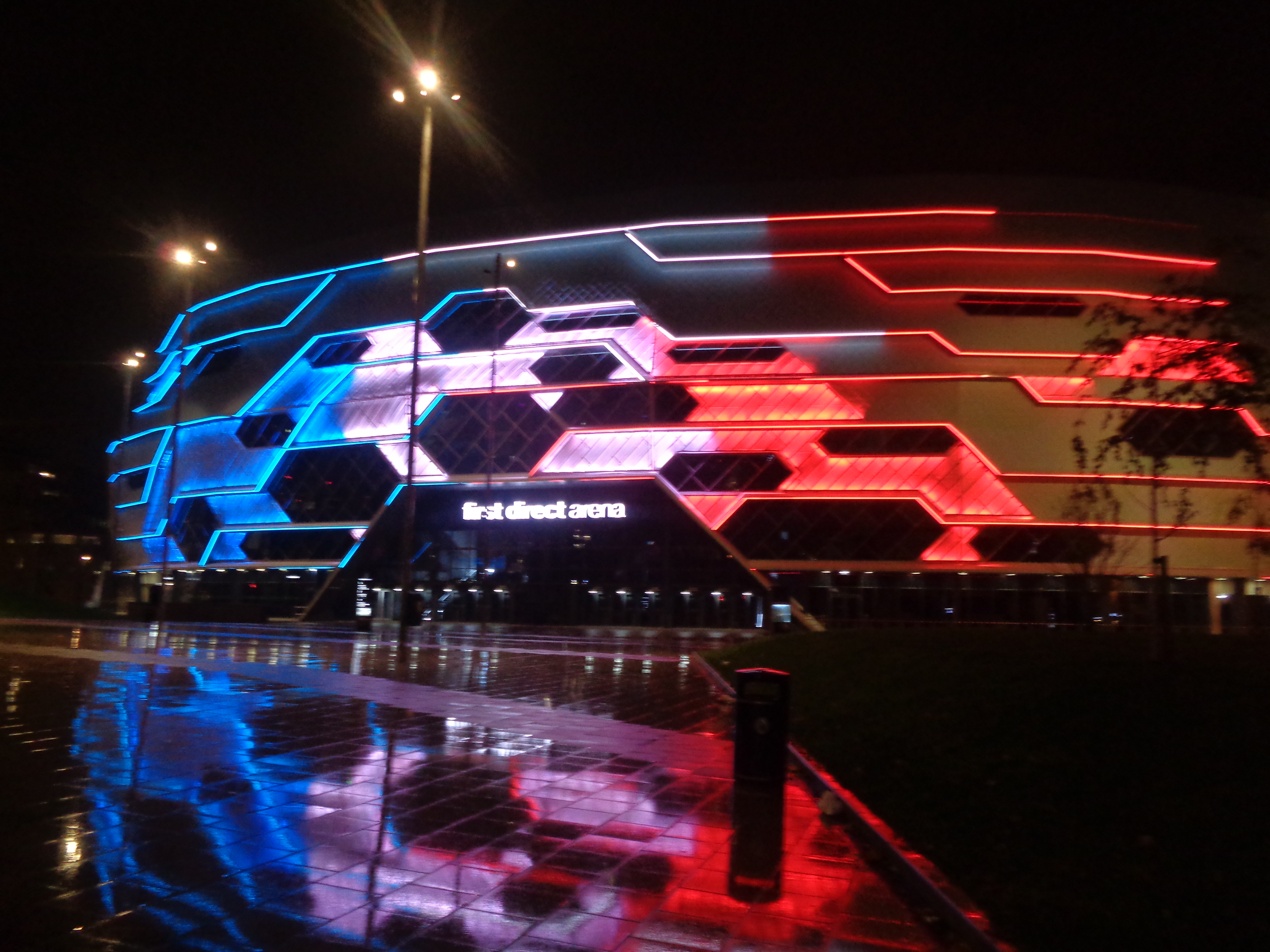 The First Direct Arena (Leeds Arena) on Clay Pit Lane in Leeds, West Yorkshire in the colours of the French Tricolor following the previous nights attacks in Paris. Taken on the night of Saturday the 14th of November 2015.